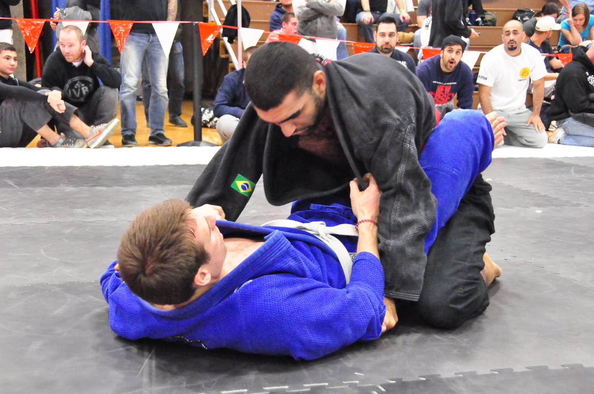 Brazilian Jiu-jitsu tournament, practitioner in the blue gi holds his opponent in his closed guard.